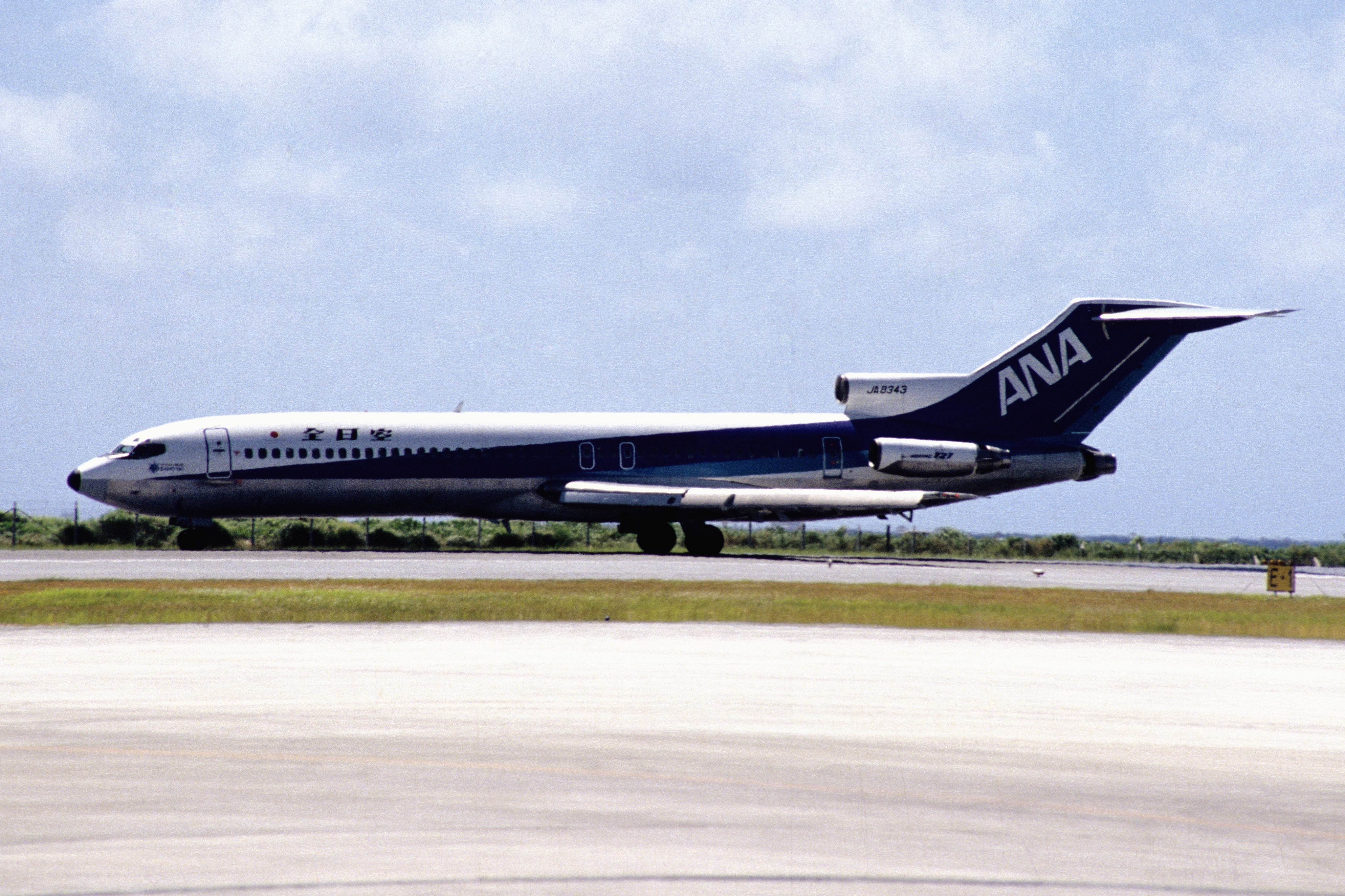 old pictures